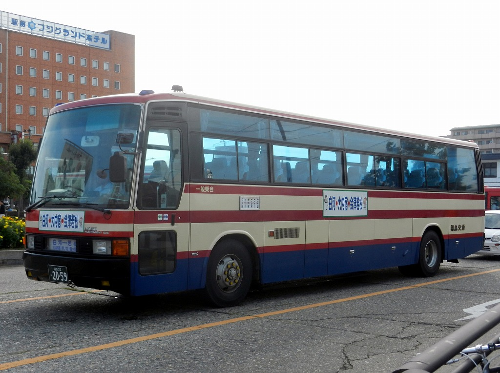 Fukushima Kotsu Mitsubishi Fuso Aero Bus (U-MS726S) "Shirakawa - Ouchijuku --AizuWakamatsu